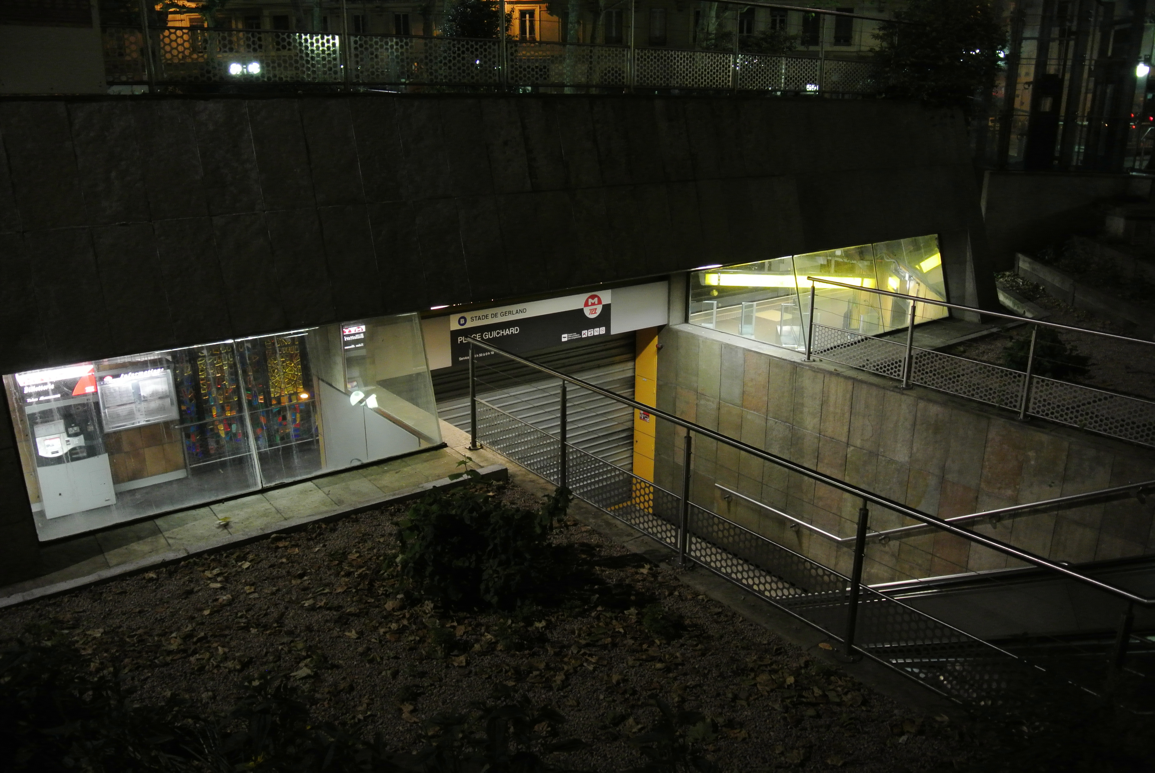 Lyon Metro station, place Guichard.